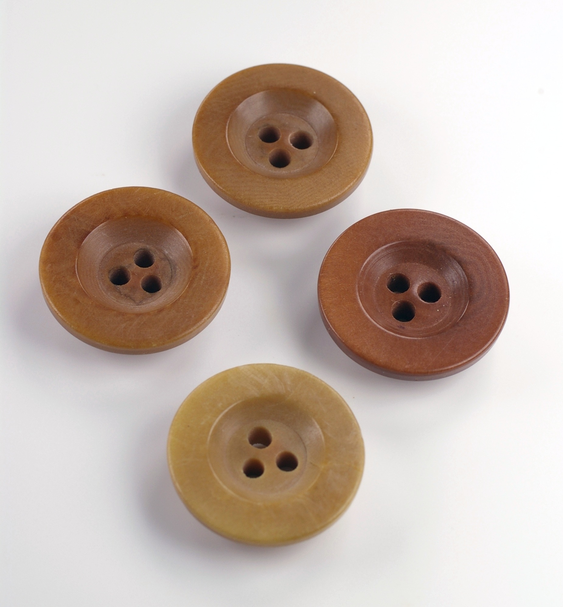 Buttons with just three holes.